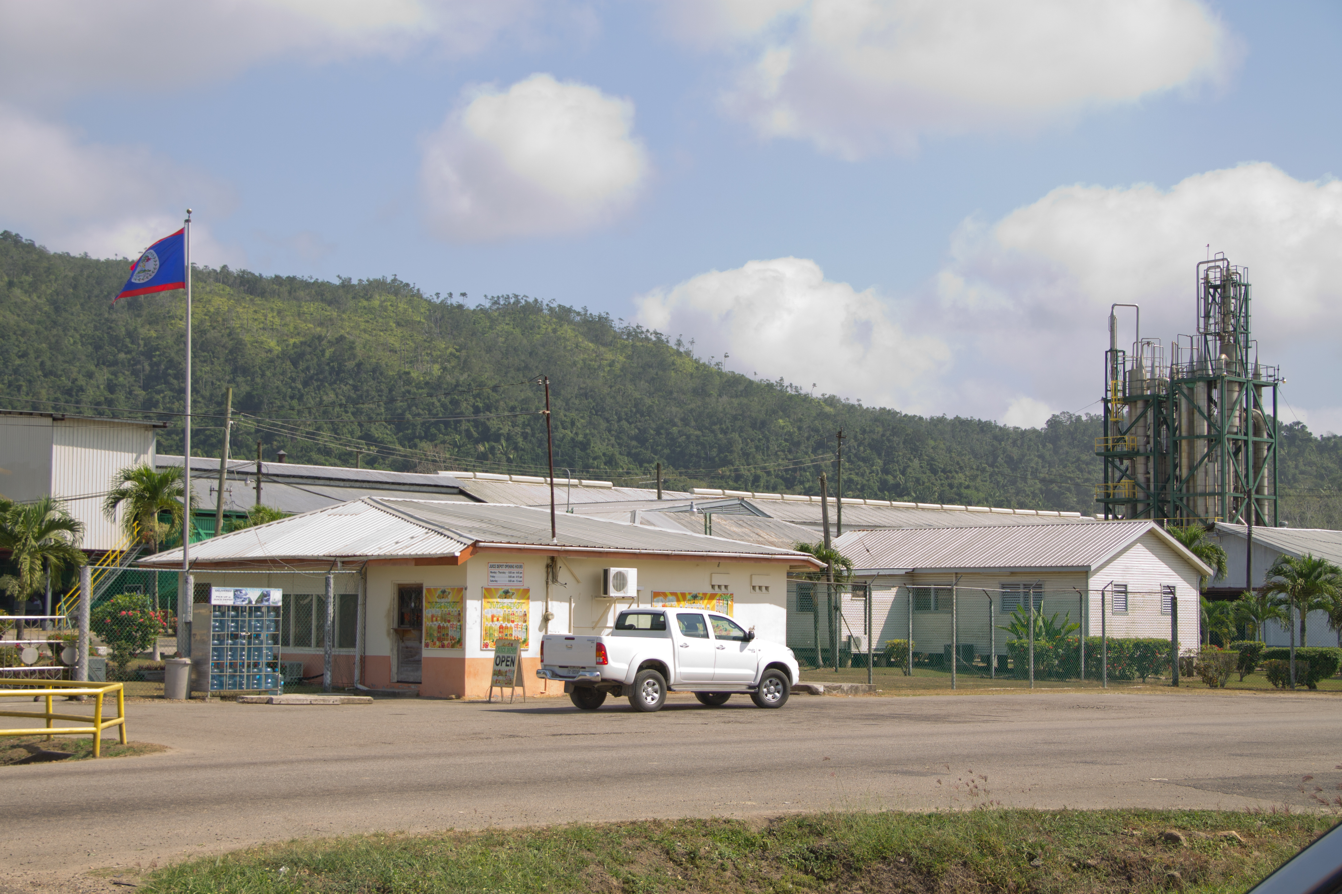 Citrus Company of Belize